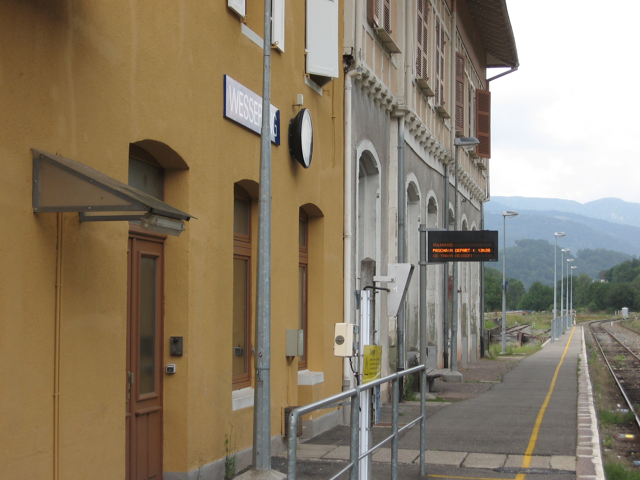 Wesserling Railway Station